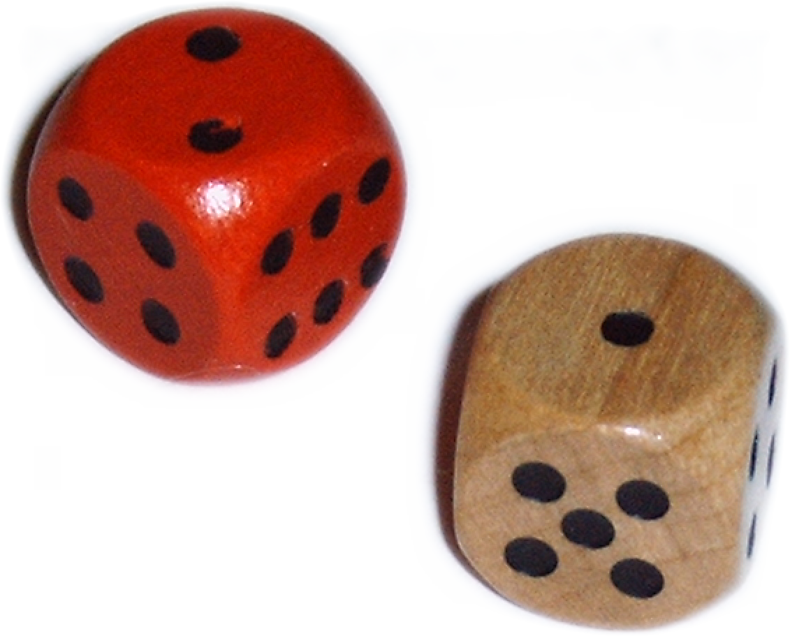 Source: Alexander Dreyer Two dice, all combination of eyes. Photographed by myself.